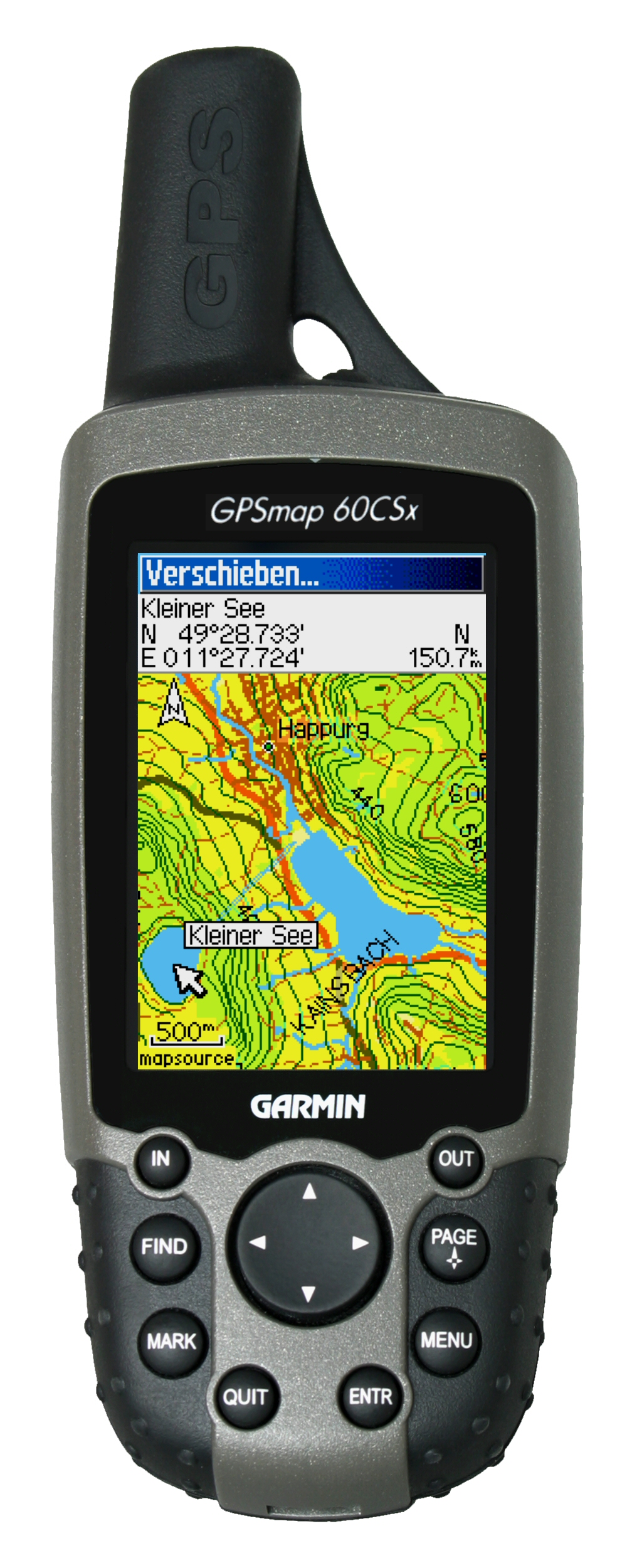 A Garmin GPSmap 60CSx Device.